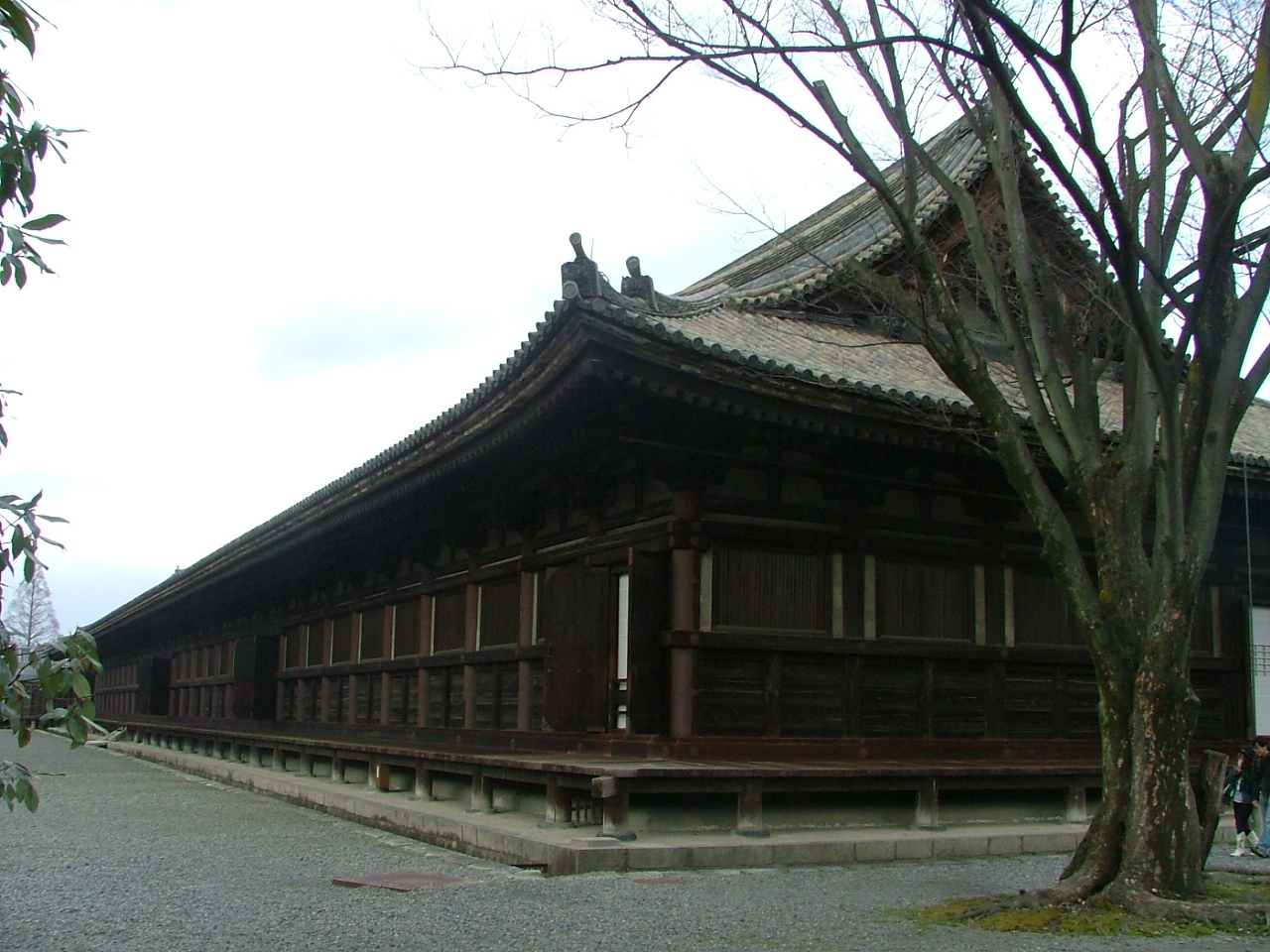 Sanjusangen-do temple in Kyoto